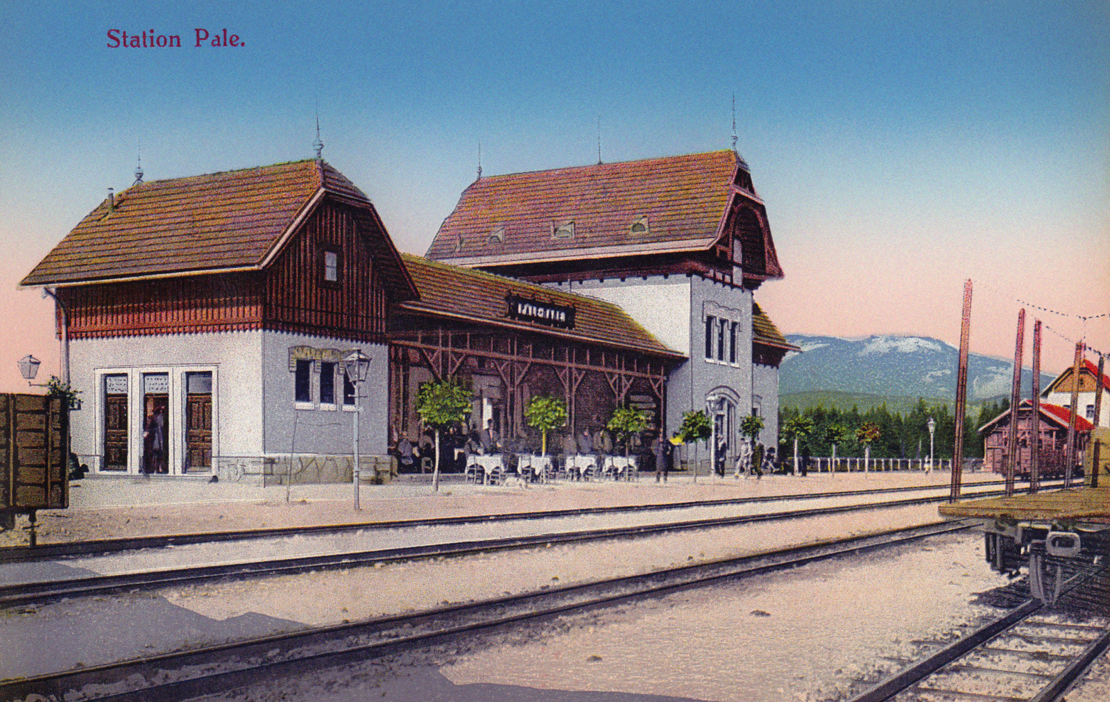 Narrow-gauge railway station Pale on the line Sarajevo (- Vardište) - Uvac